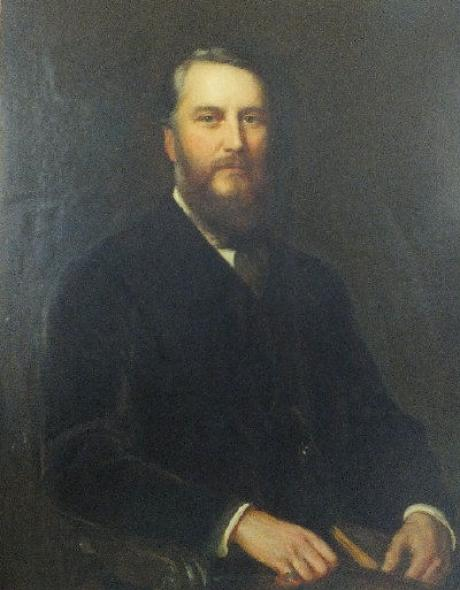 Portrait of Charles Stuart Parker (1829–1910), English politician.